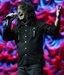 Former Singer of Journey and The Storm Kevin Chalfant